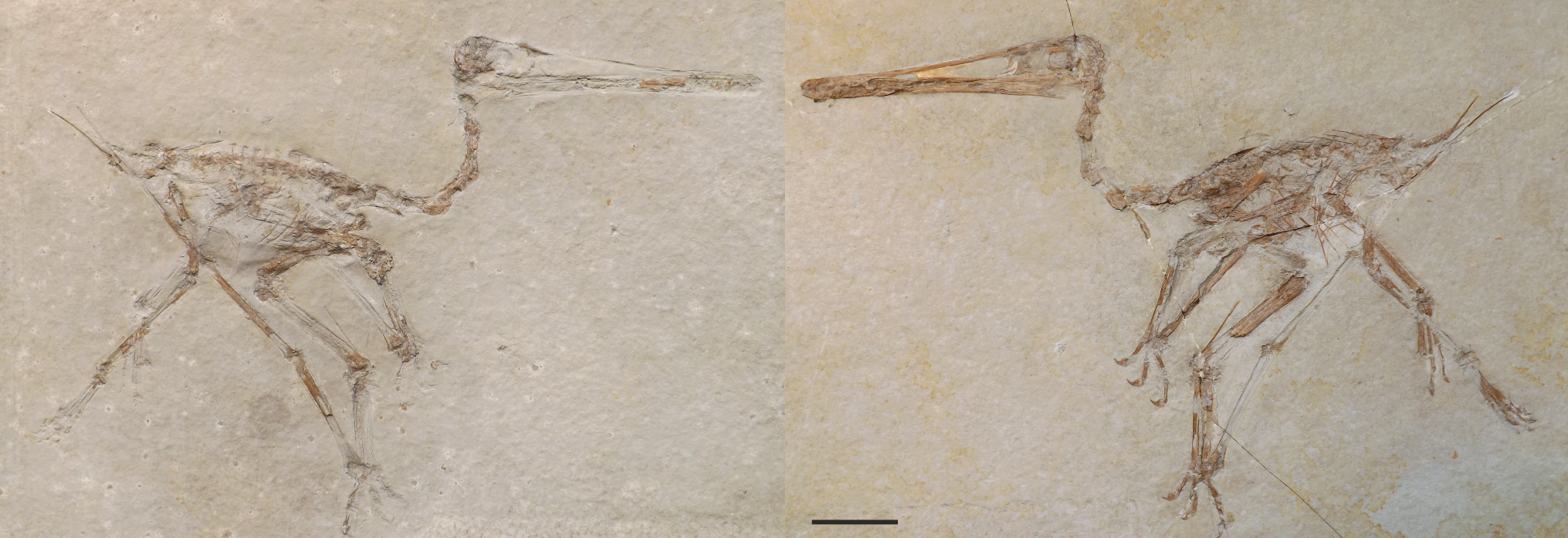 The part and counterpart of Pterodactylus scolopaciceps (BSP AS V 29 a [right] b [left]) holotype. Scale bar = 20 mm.